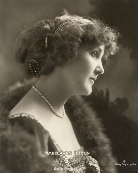 Studio publicity portrait of Selig Polyscope silent film star Mabel Van Buren, 1913.